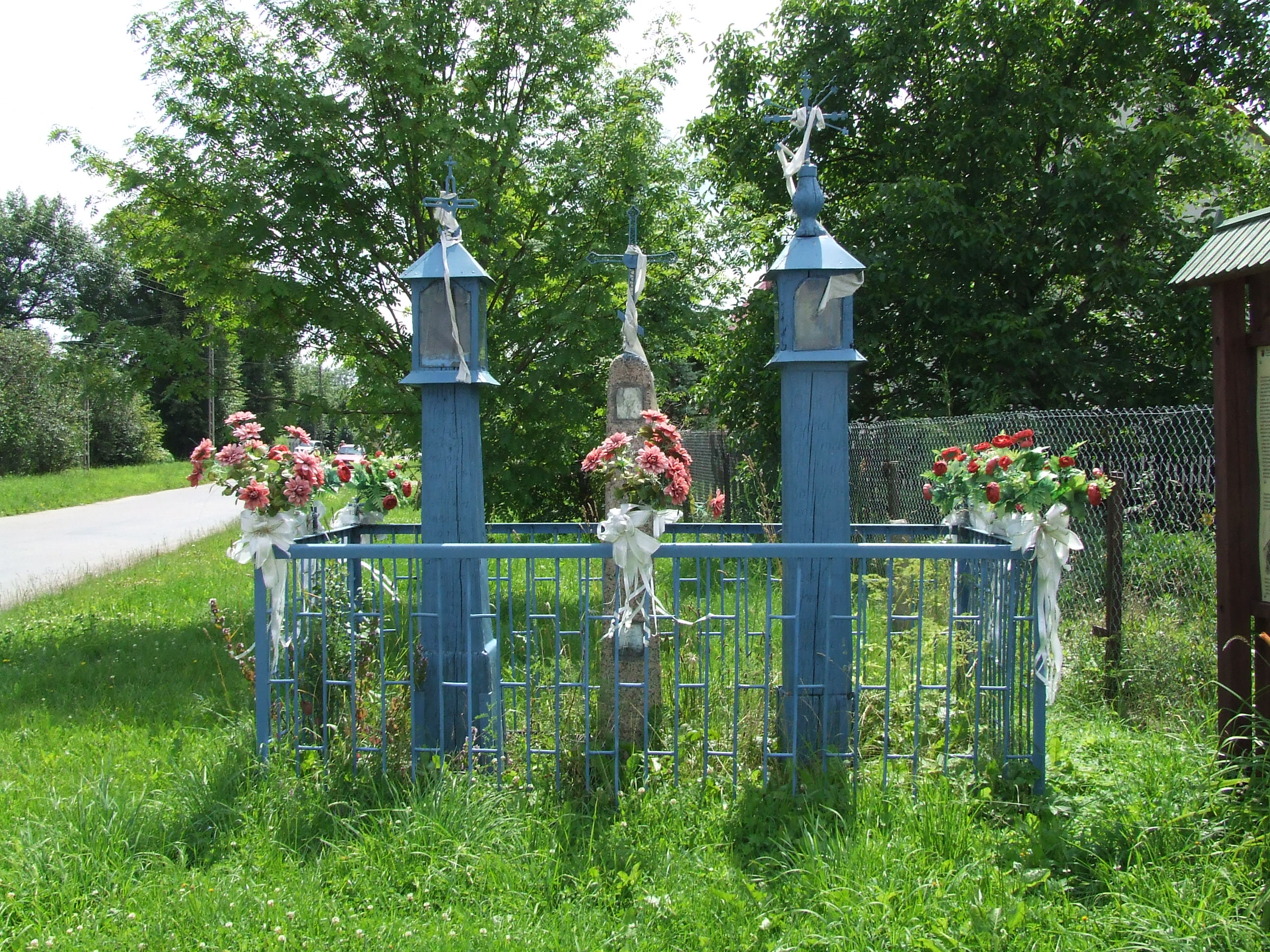 This photo from Podlaskie Voievodeship was taken during Polish Wikiexpedition 2009 set up by Wikimedia Polska Association. The making of this document was supported by Wikimedia Polska.